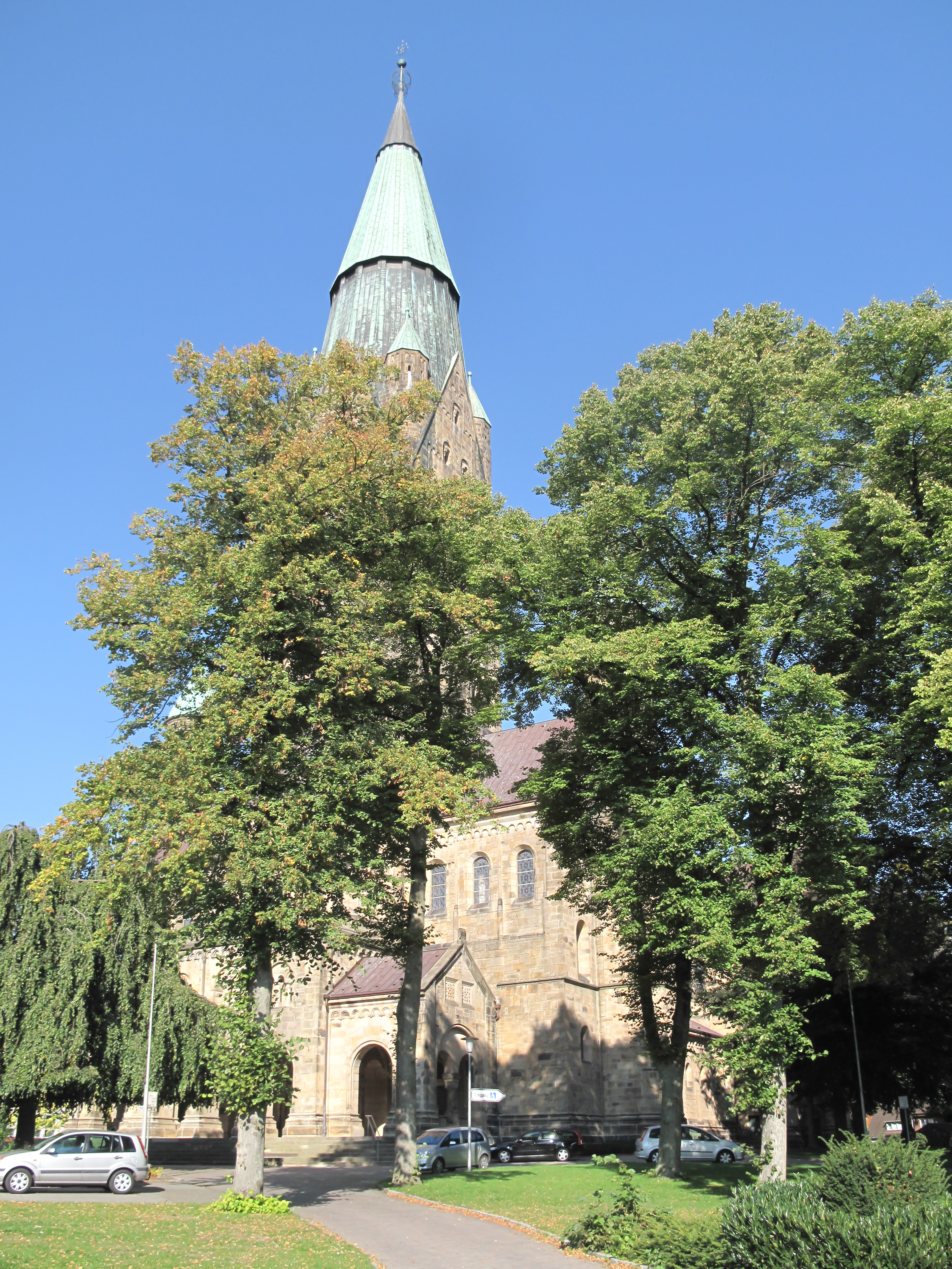 Rheine, church: Basilika katholische Pfarrkirche Sankt Antonius This is a photograph of an architectural monument.